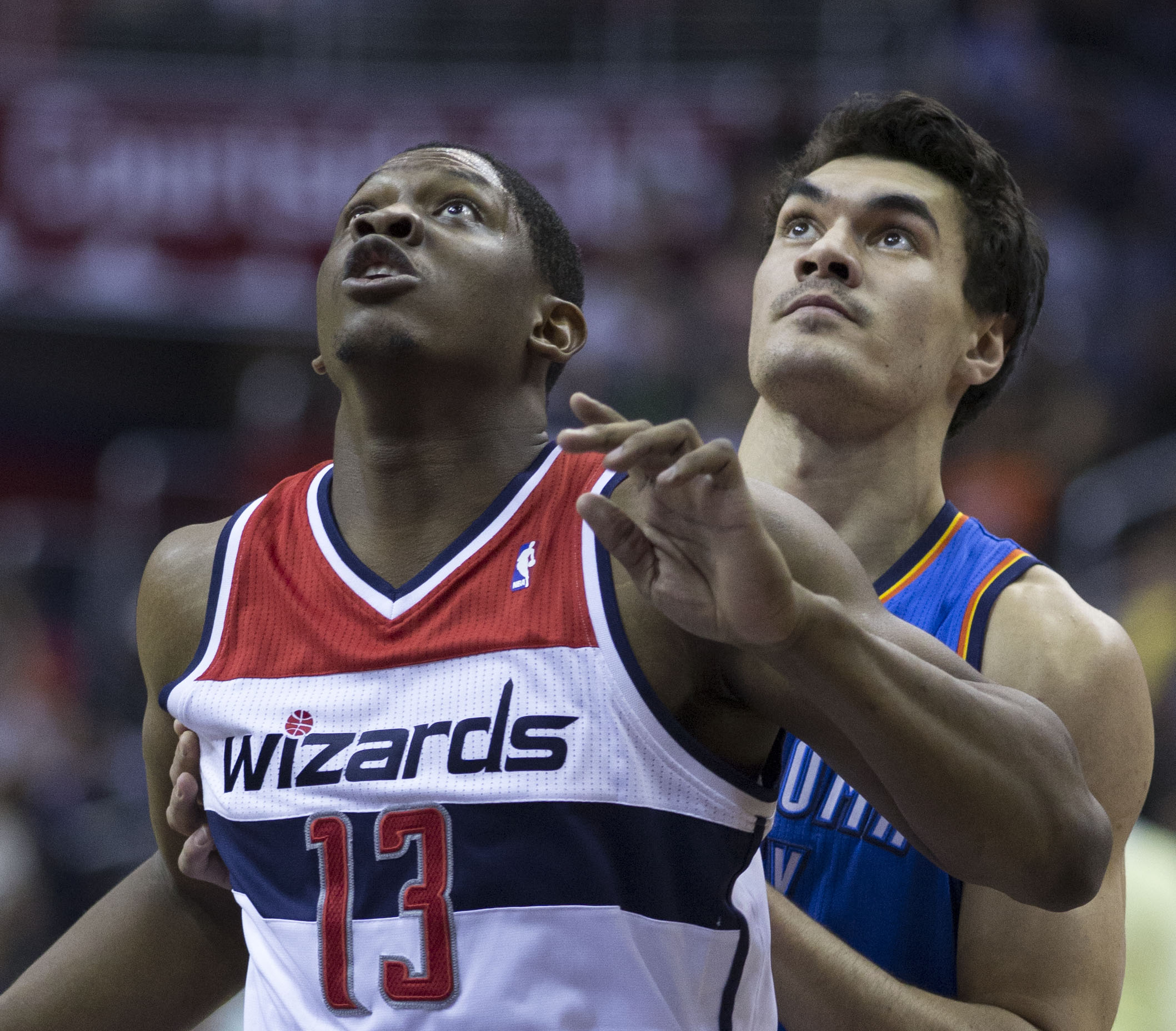 Thunder at Wizards 2/1/14